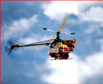 TU-Berlin aerial robot at the DoE HAMMER Facility during the International Aerial Robotics Competition.